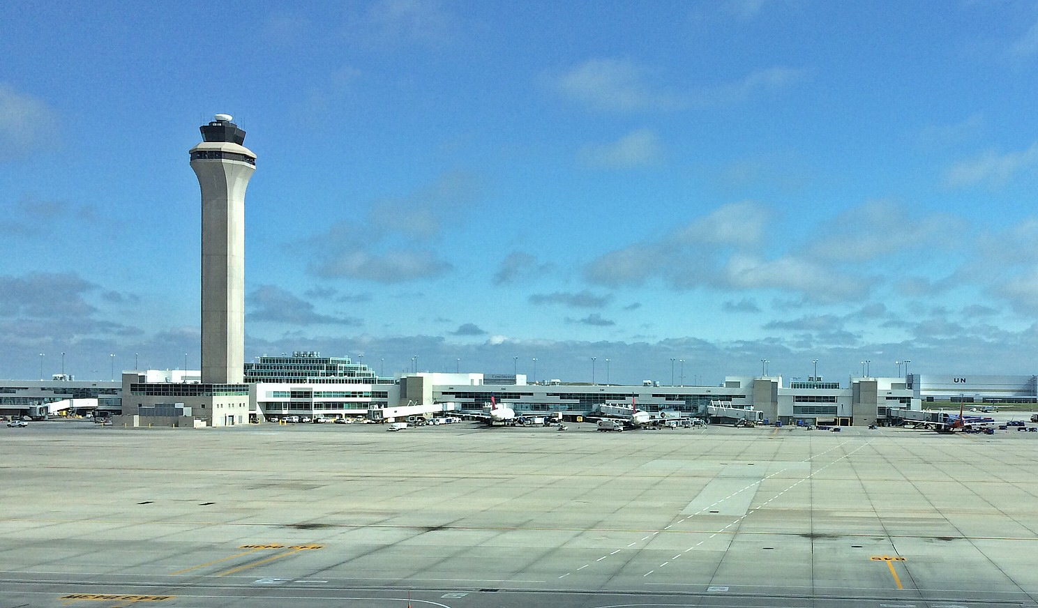 View of Concourse C and the FAA Control Tower